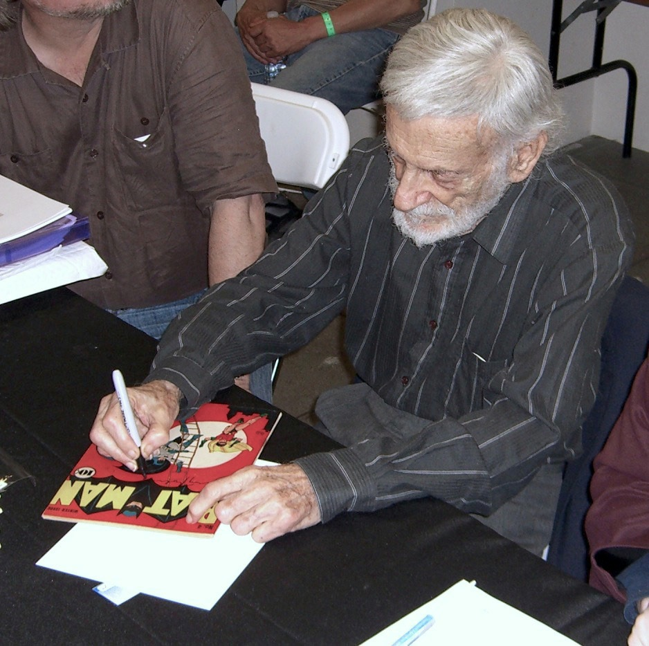 Comics creator Jerry Robinson, the creator of The Joker, at the Big Apple Convention in Manhattan, May 21, 2011. Photographed by Luigi Novi. This photo is not in the public domain. It may, however, be used, modified and published for any purpose, free of charge, only if the photographer is properly credited, either by linking the photograph to this page, or with an easily visible credit to the photographer placed near the photo in each instance in which it is used. (See licensing information below.) Publication of this photo without this proper attribution constitutes copyright infringement. If you have any questions, you can contact me on my Wikipedia Talk Page.